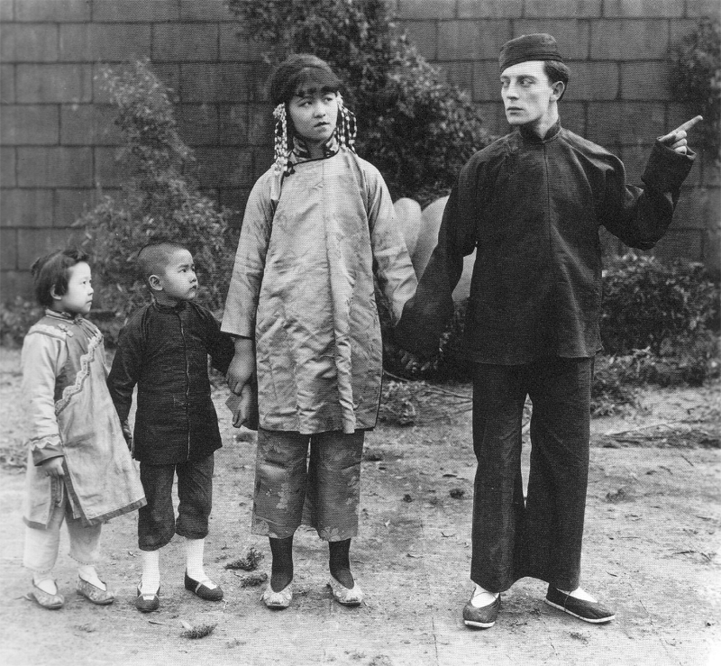 Buster and his Chinese wife and children from the missing finale of Hard Luck (1921).